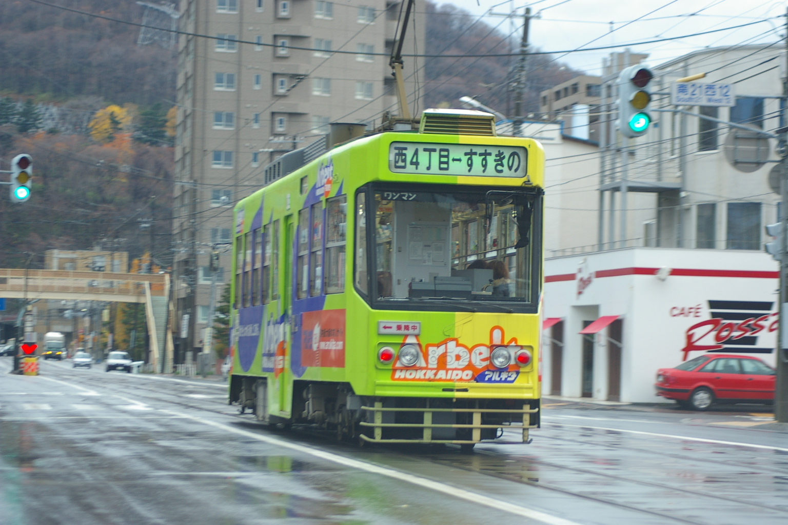 Sapporo streetcar type 8520.